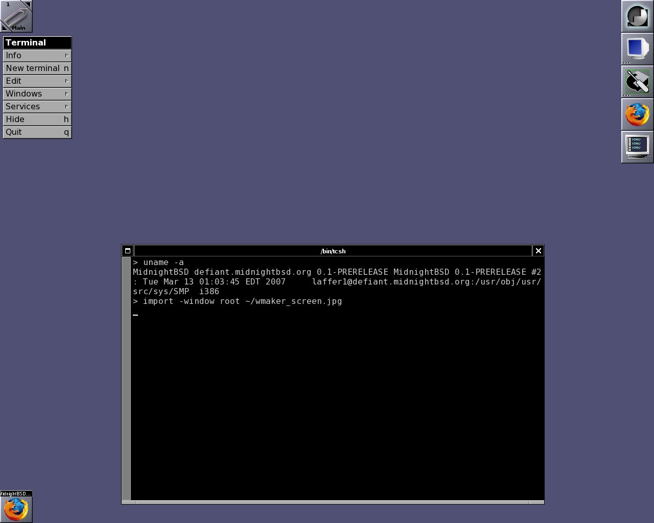 Screenshot of MidnightBSD 0.1-PRERELEASE version with desktop using the Window Maker window manager.